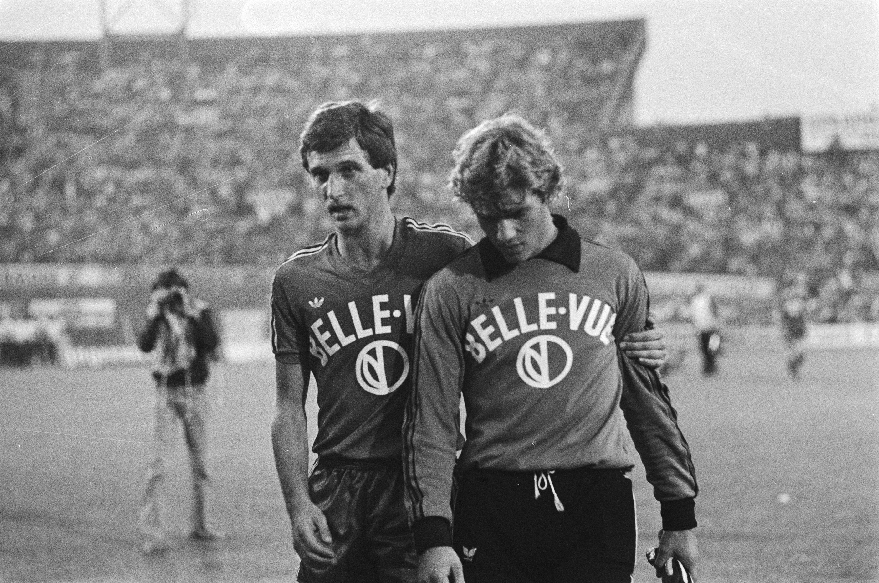 Ludo Coeck and goalkeeper Jacky Munaron as players of RSC Anderlecht.